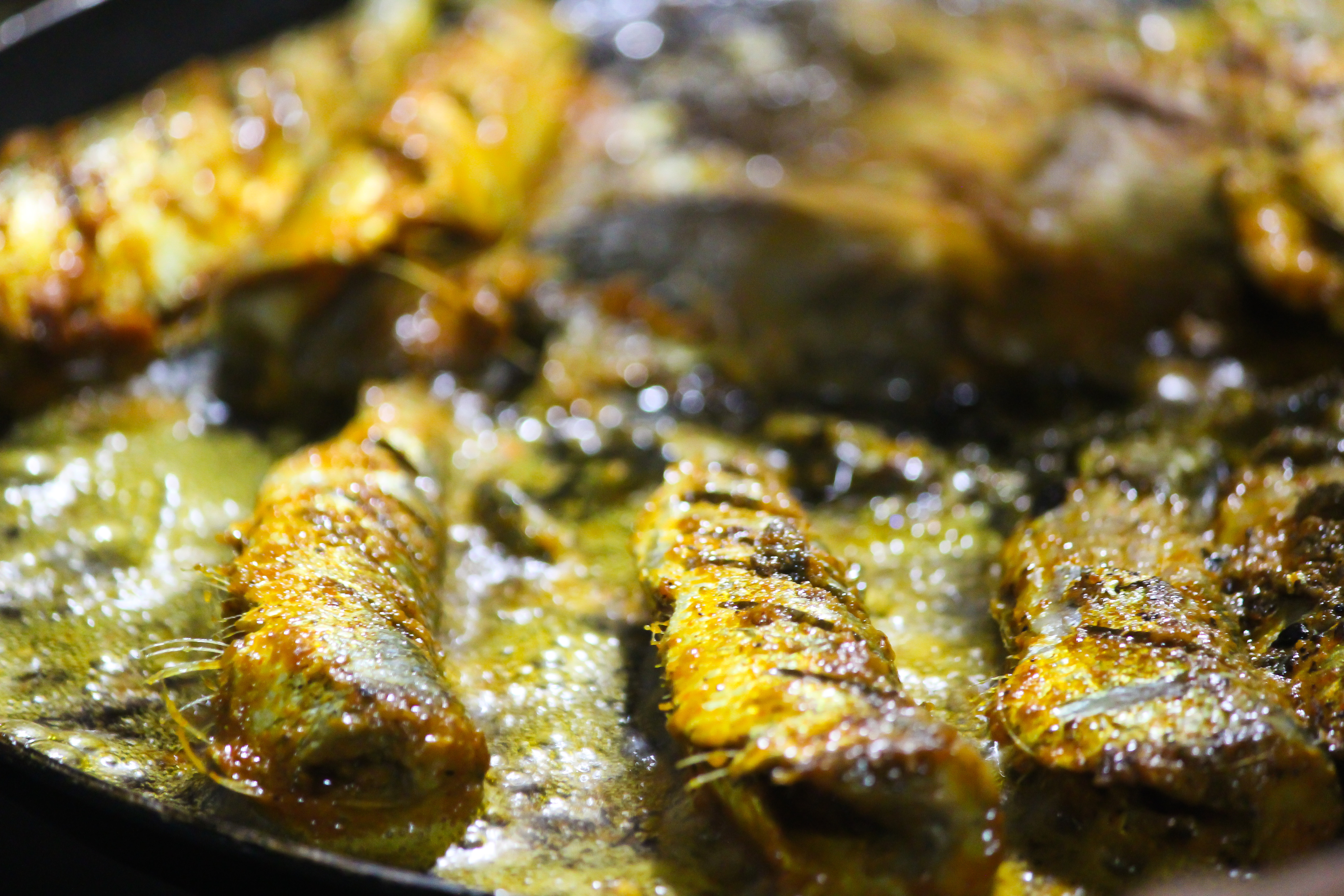 മത്തി പൊരിച്ചത്